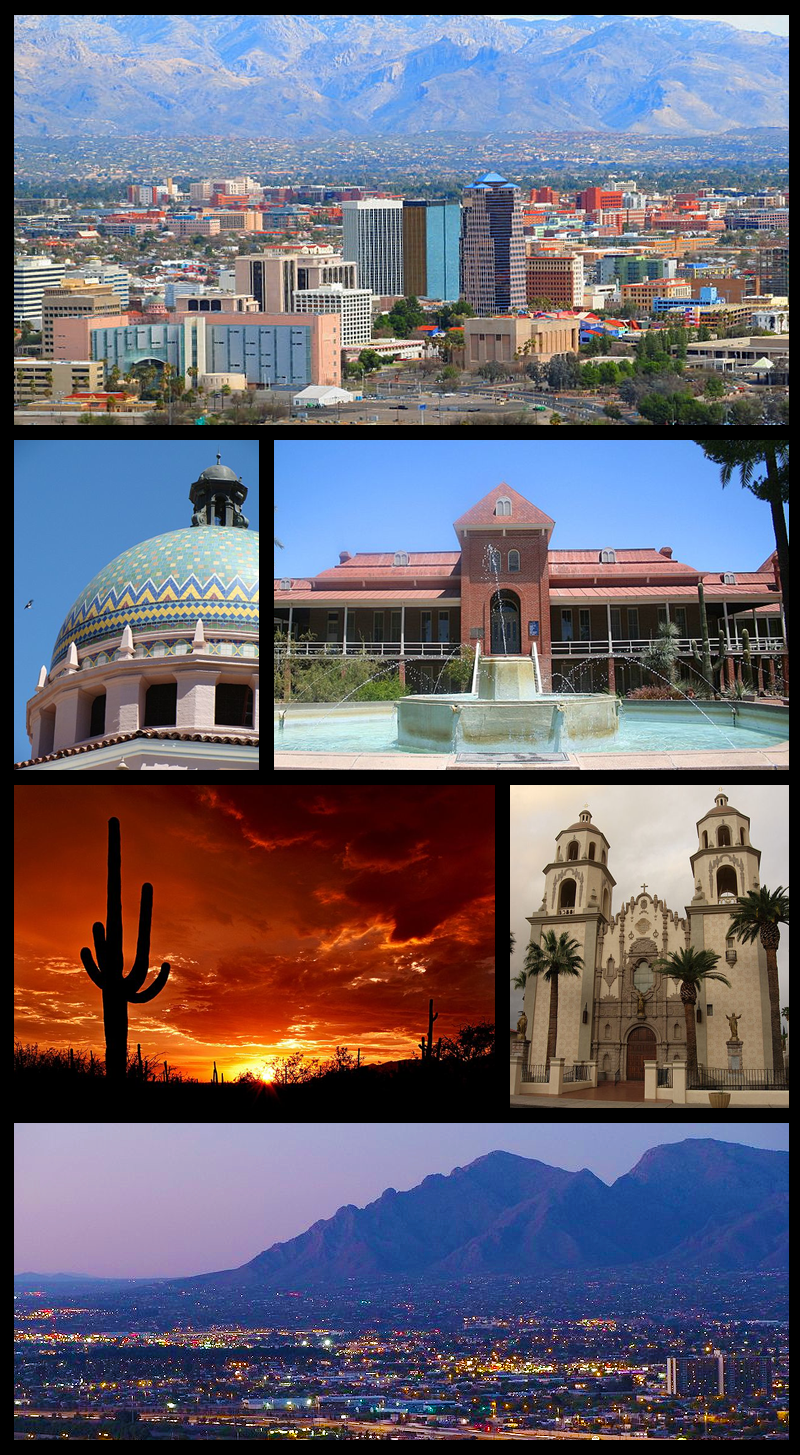 Downtown Tucson, Arizona taken from Sentinel Peak. Old Pima County Courthouse, Tucson, Arizona